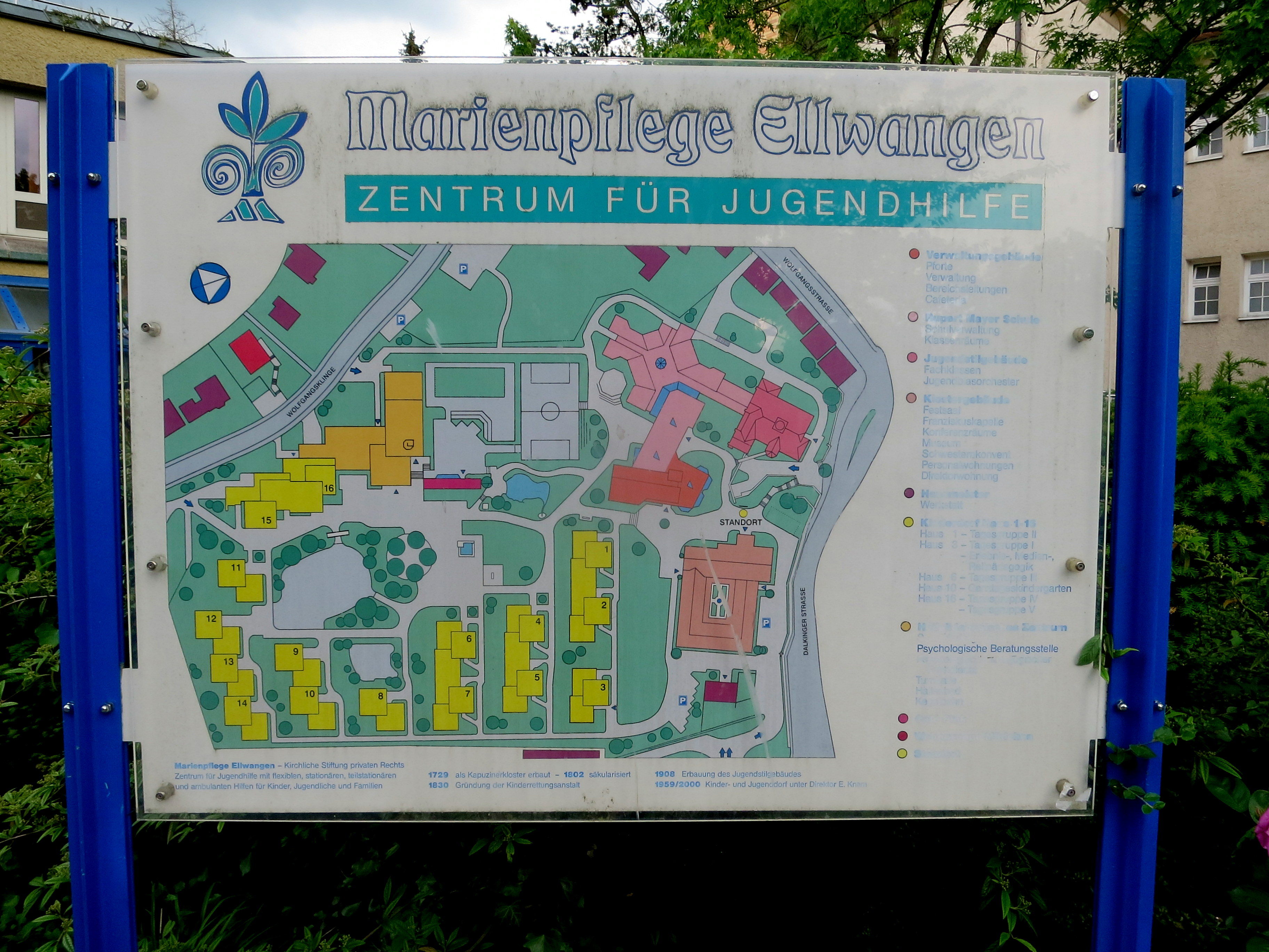 Village for children - pictures of the site Marienpflege Ellwangen